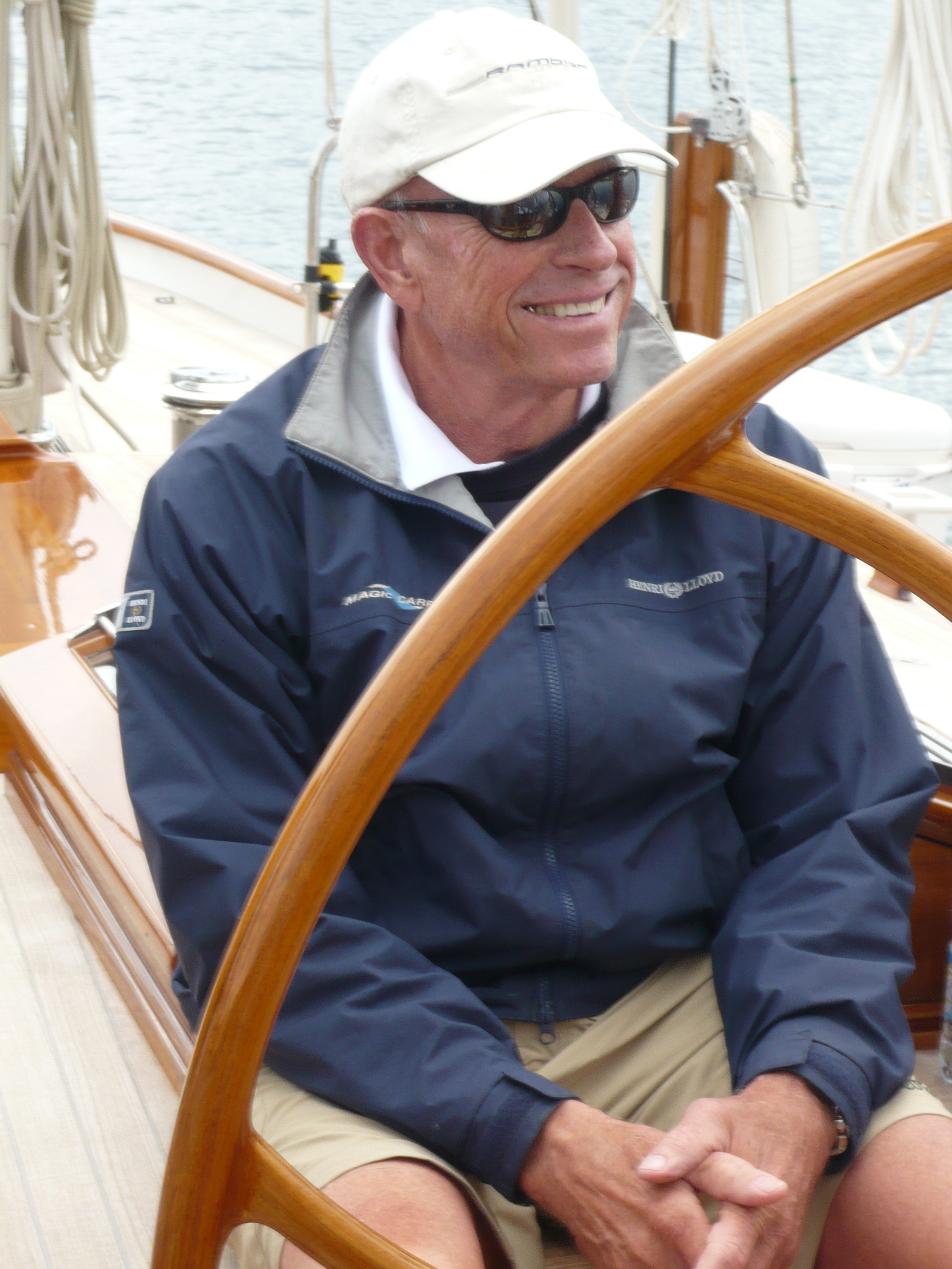 Tom Whidden photo